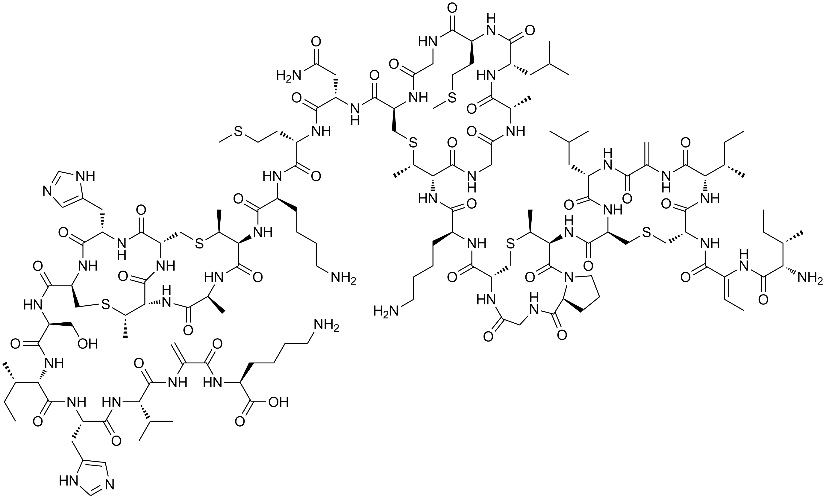 chemical structure of nisin